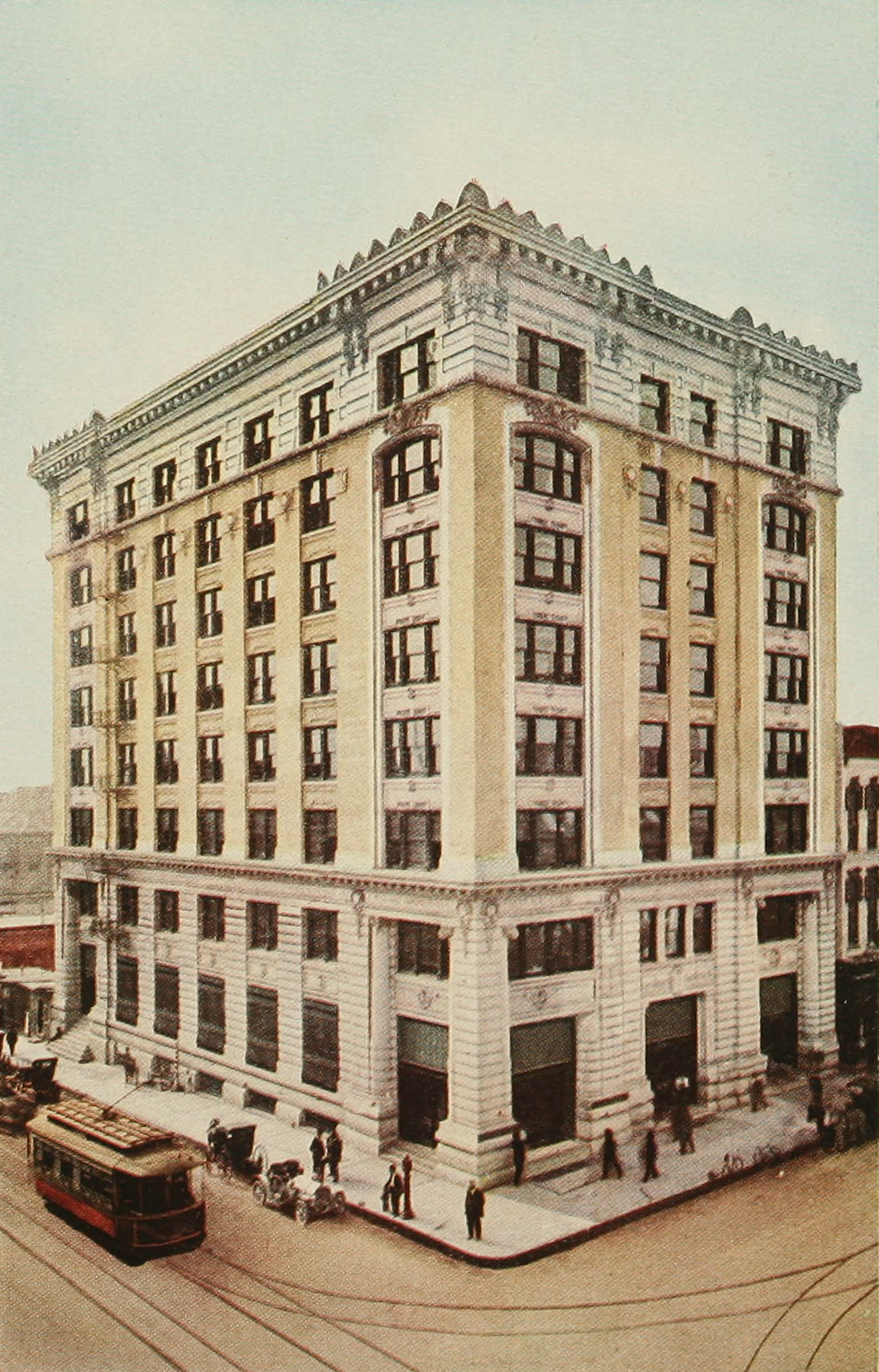 First National Bank Building, Houston, 1913 - From "Houston: Where Seventeen Railroads Meet the Sea" Page 20/40"View of the First National Bank Building. Houston Has More Banks, Greater Capital, Greater Clearings and Deposits Than Any City in Texas."